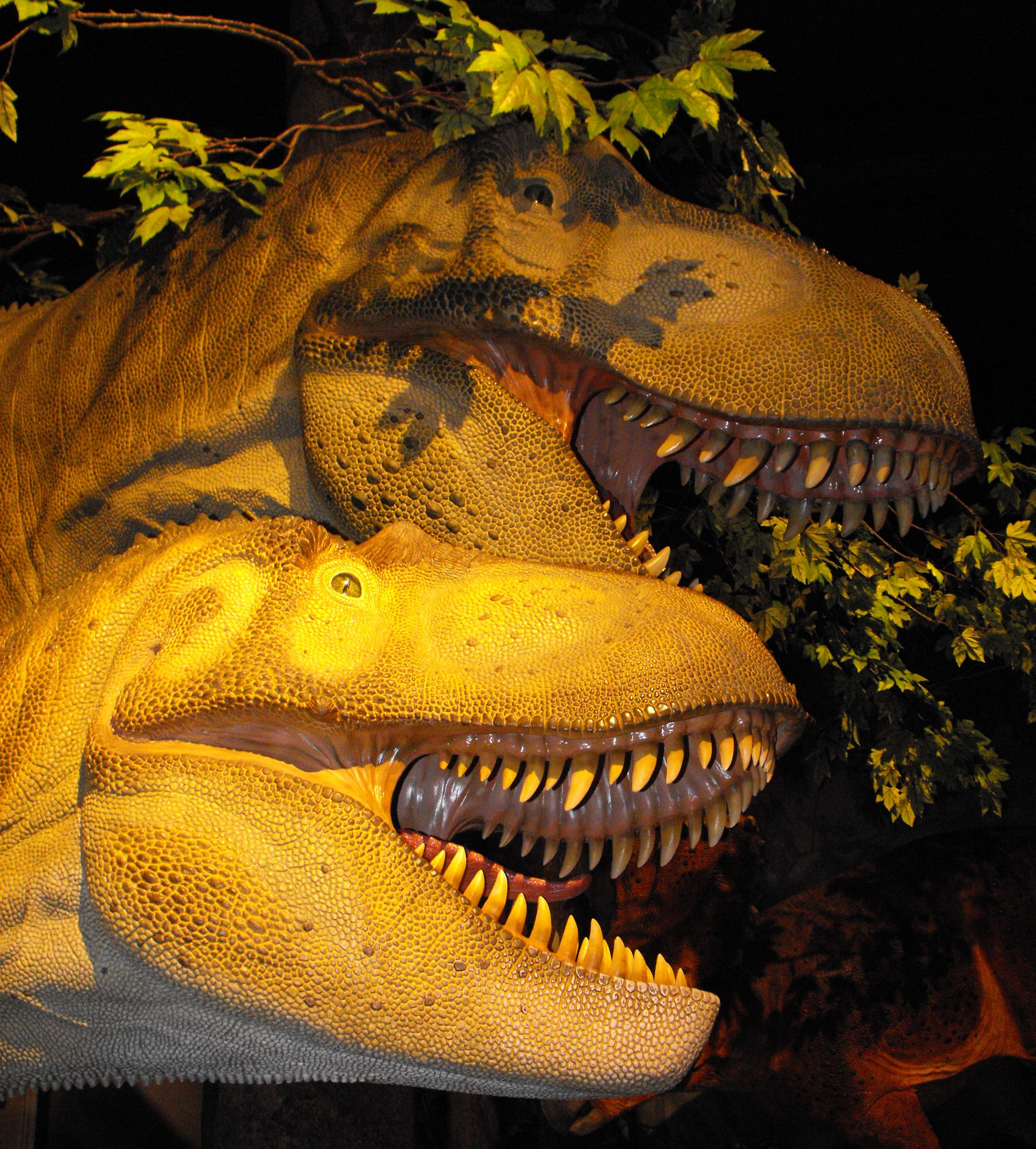 Daspletosaurus torosus models, Canadian Museum of Nature.